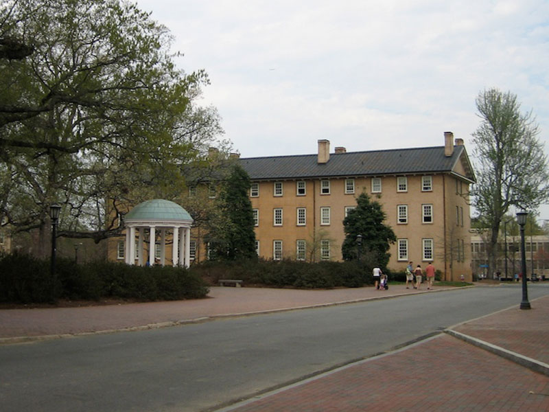 The Old Well and Old East residence hall on the campus of the University of North Carolina at Chapel Hill.